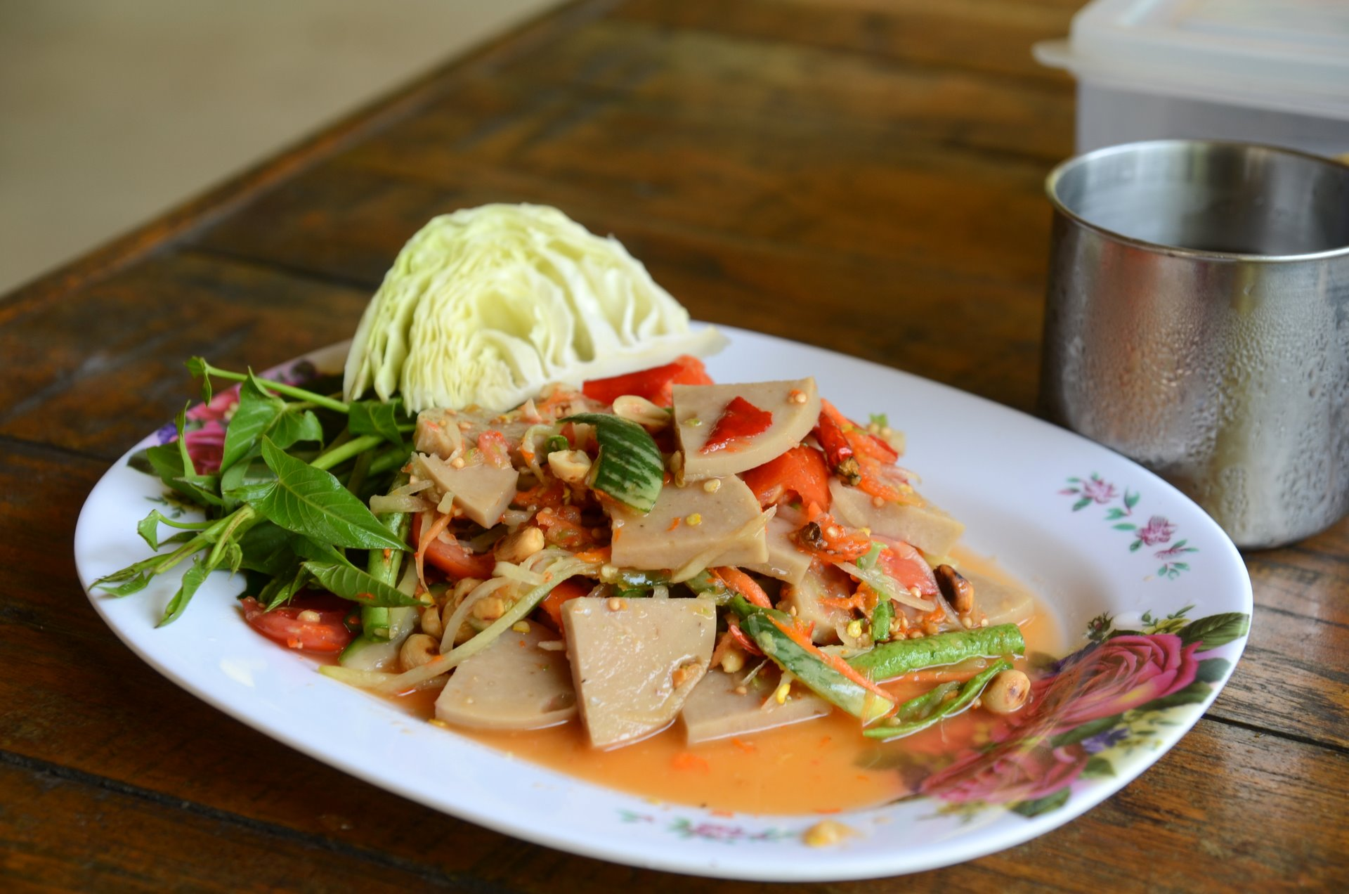 Tam mu yo (Thai script: ตำหมูยอ) is a spicy Thai salad made with mu yo, a Thai pork sausage, often also described in Thailand as "Vietnamese sausage" (see Giò lụa). The dressing is similar to that of som tam.